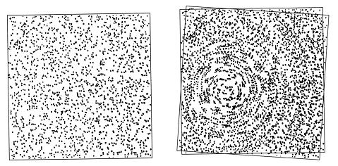 A fixed point can be seen around which the image is rotated